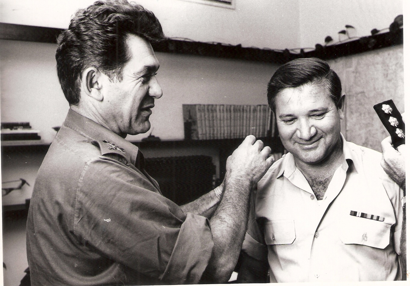 Tabak gets Captain ranks